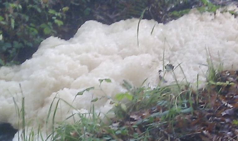 Foam lines on the Vale Burn, Barrmill, North Ayrshire, Scotland.